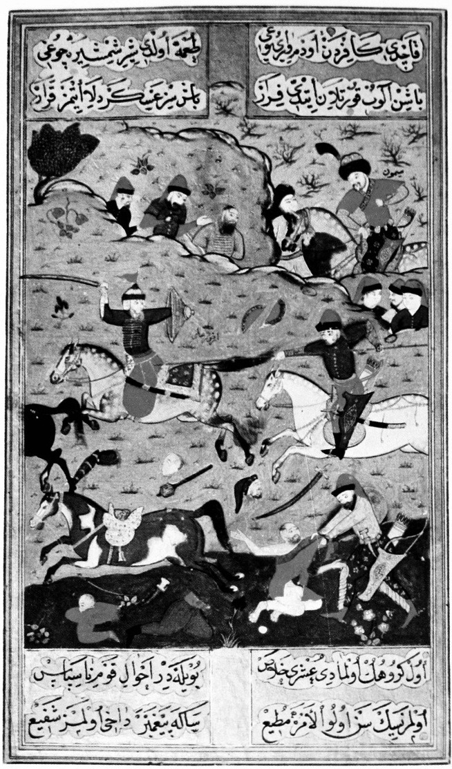 "The men of Erzurum attacked by Simun." From the Sheja'atname of Asafi, MS. TY 6043, fol. 109r. of Istanbul University Library. Simun=Simon I of Kartli.